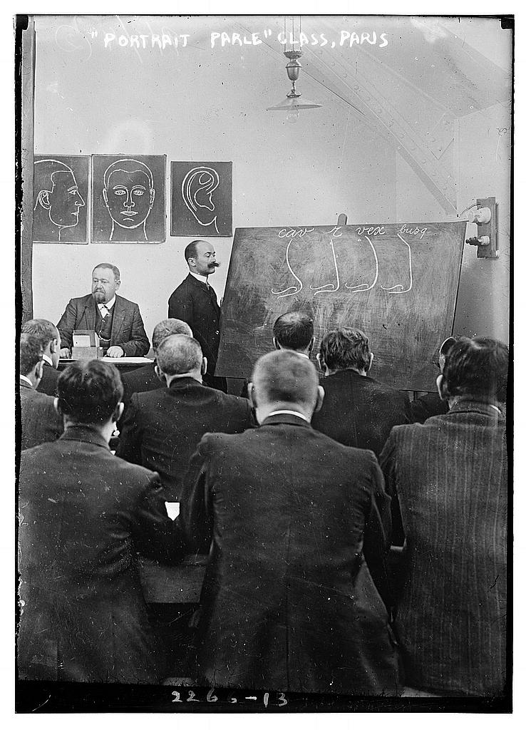 "Portrait Parle" Class, Paris (LOC) Bain News Service,, publisher. "Portrait Parle" Class, Paris [between ca. 1910 and ca. 1915] 1 negative : glass ; 5 x 7 in. or smaller. Notes: Title from data provided by the Bain News Service on the negative. Photo shows class studying the Bertillon method of criminal identification, developed by the French criminologist Alphonse Bertillon (1853-1914). (Source: Flickr Commons project, 2010) Forms part of: George Grantham Bain Collection (Library of Congress). Subjects: Paris Format: Glass negatives. Repository: Library of Congress, Prints and Photographs Division, Washington, D.C. 20540 USA, General information about the Bain Collection is available at Persistent URL: Call Number: LC-B2- 2266-13